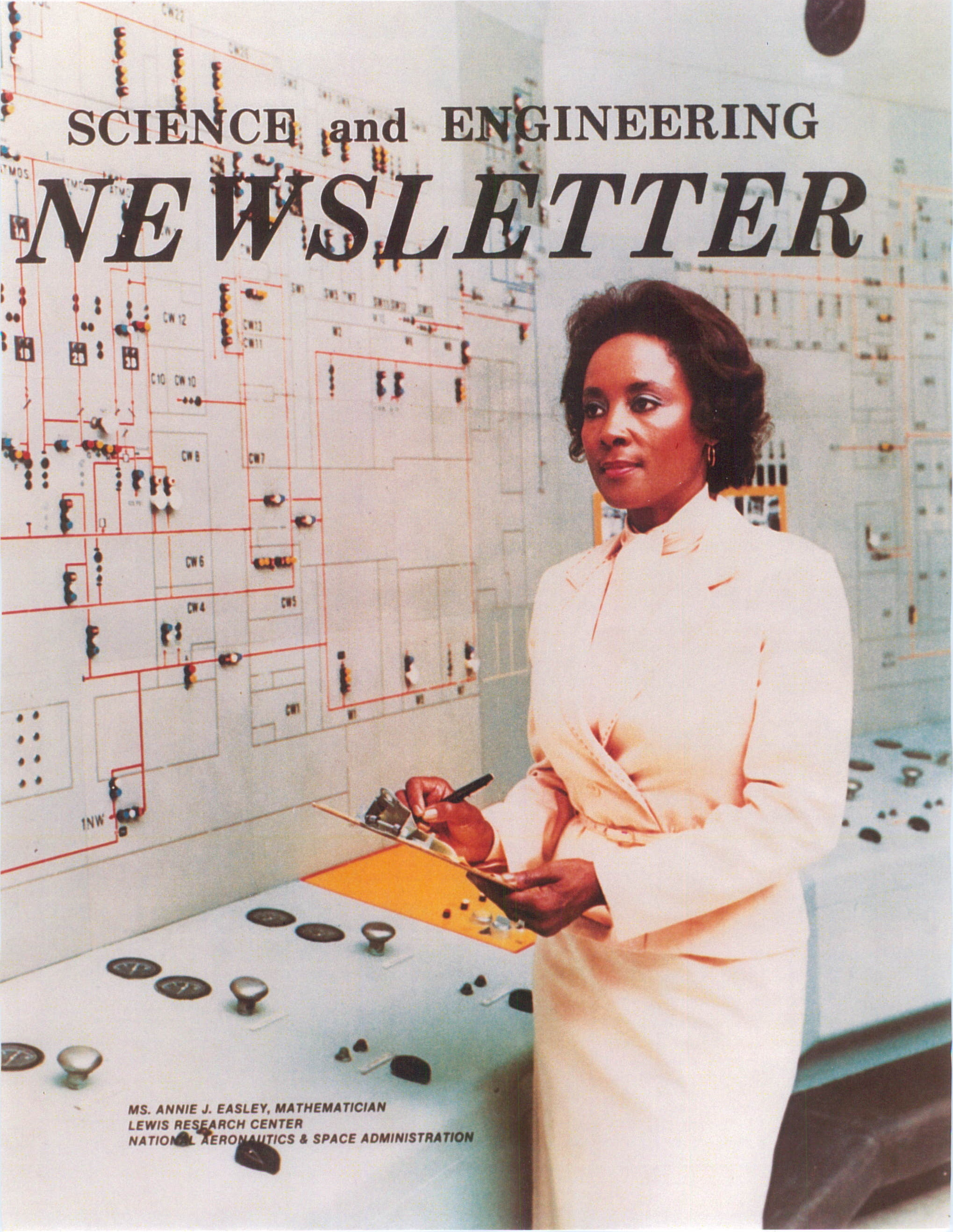 Front cover of the Science and Engineering Newsletter featuring Annie Easley at Lewis Research Center. (NASA item #C-82-4215)